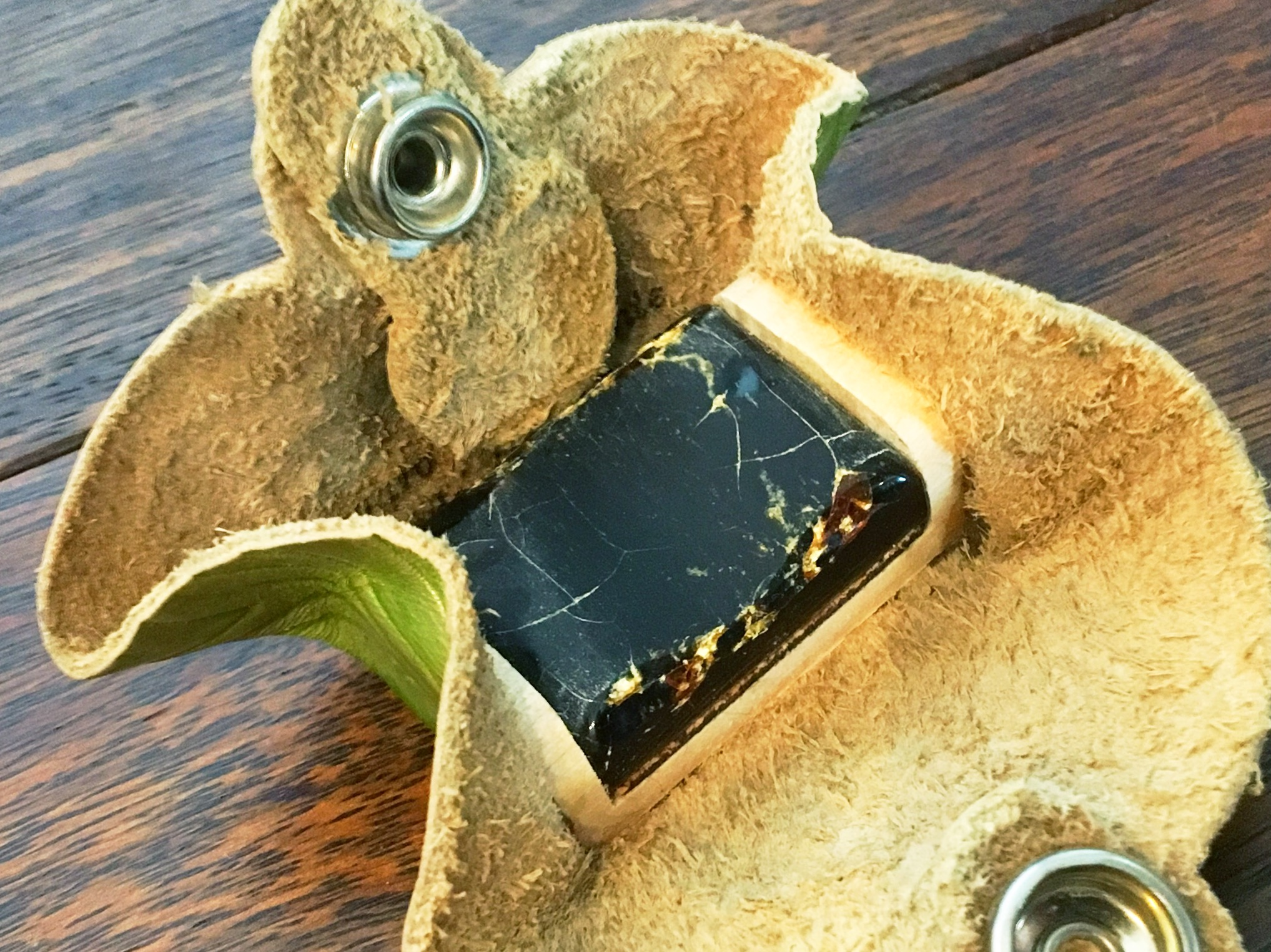 rosin for strings instrument (cello)